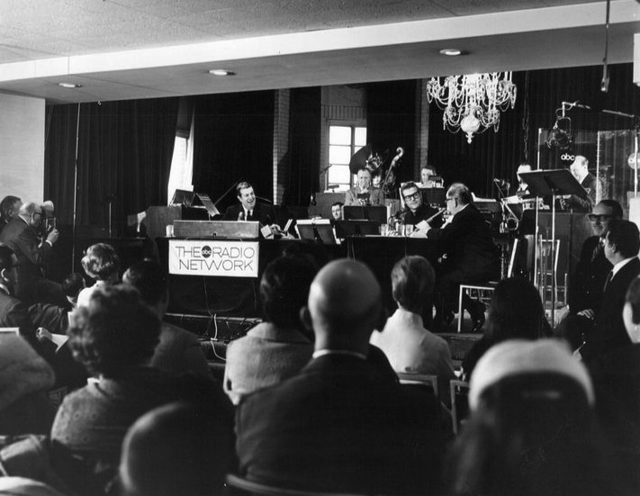 Photo of the taping of the last Breakfast Club radio program in 1968.